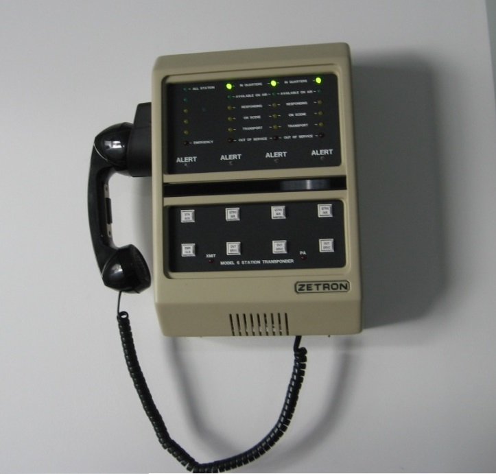 Zetron Station Turn Out Emergency Dispatch System